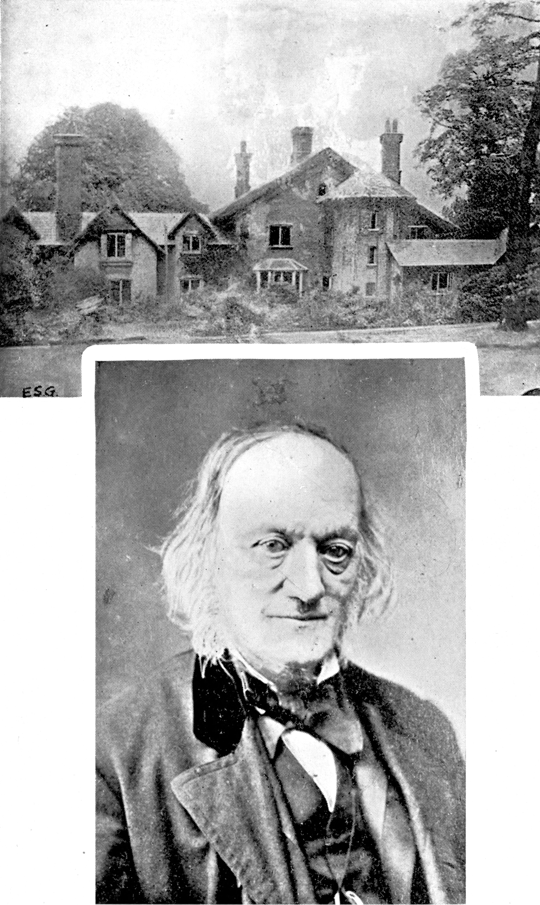 Sir Richard Owen, K.C.B., F.R.S. and Sheen Lodge, Richmond Park, from the book Biographies of Scientific Men